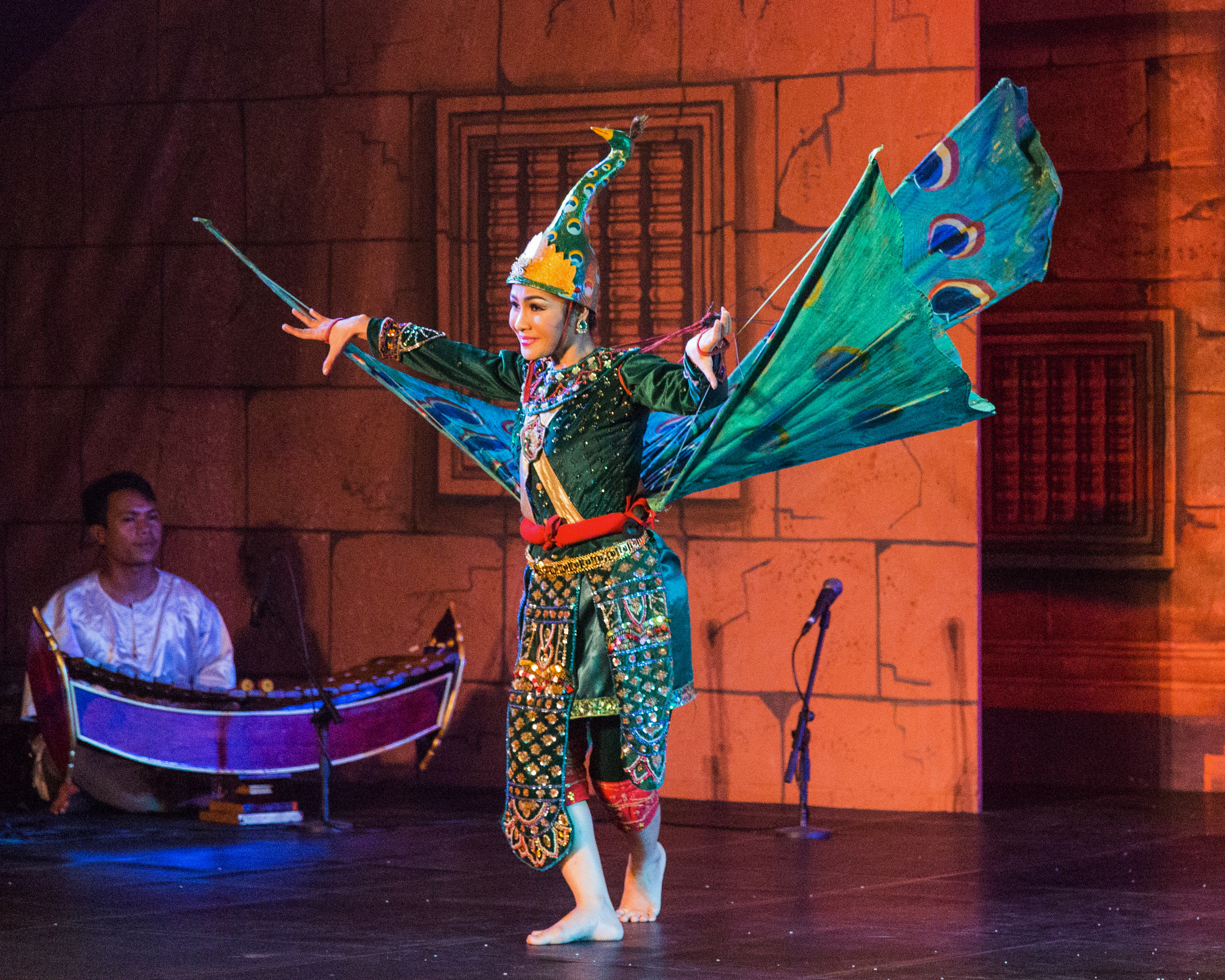 Traditional Cambodian Dance Show - Pailin Peacock Dance. Phnom Penh, Cambodia.